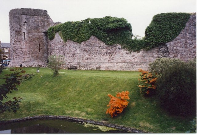 Rothesay Castle